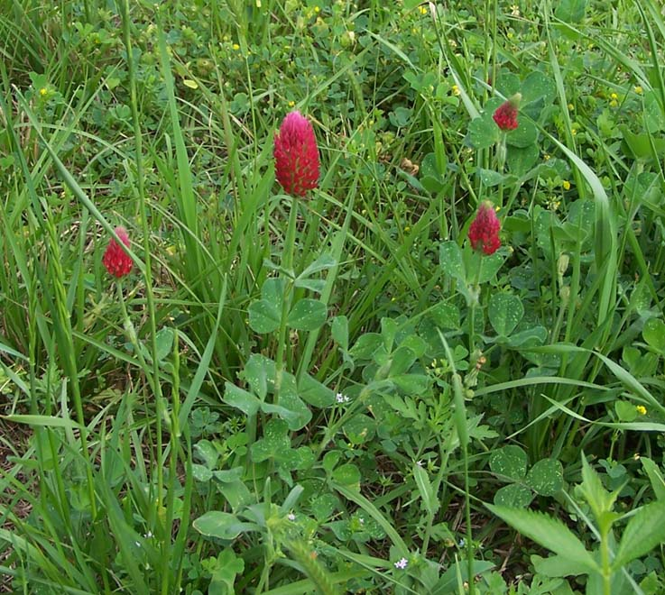 Photo of a Crimson clover (Trrifolium incarnatum) taken by DanielCD on April 1, 2006. It was found growing in a forest margin/roadside area near Humble, Texas (USA). Date info on camera shown in the box below is wrong. --DanielCD 23:03, 1 April 2006 (UTC)